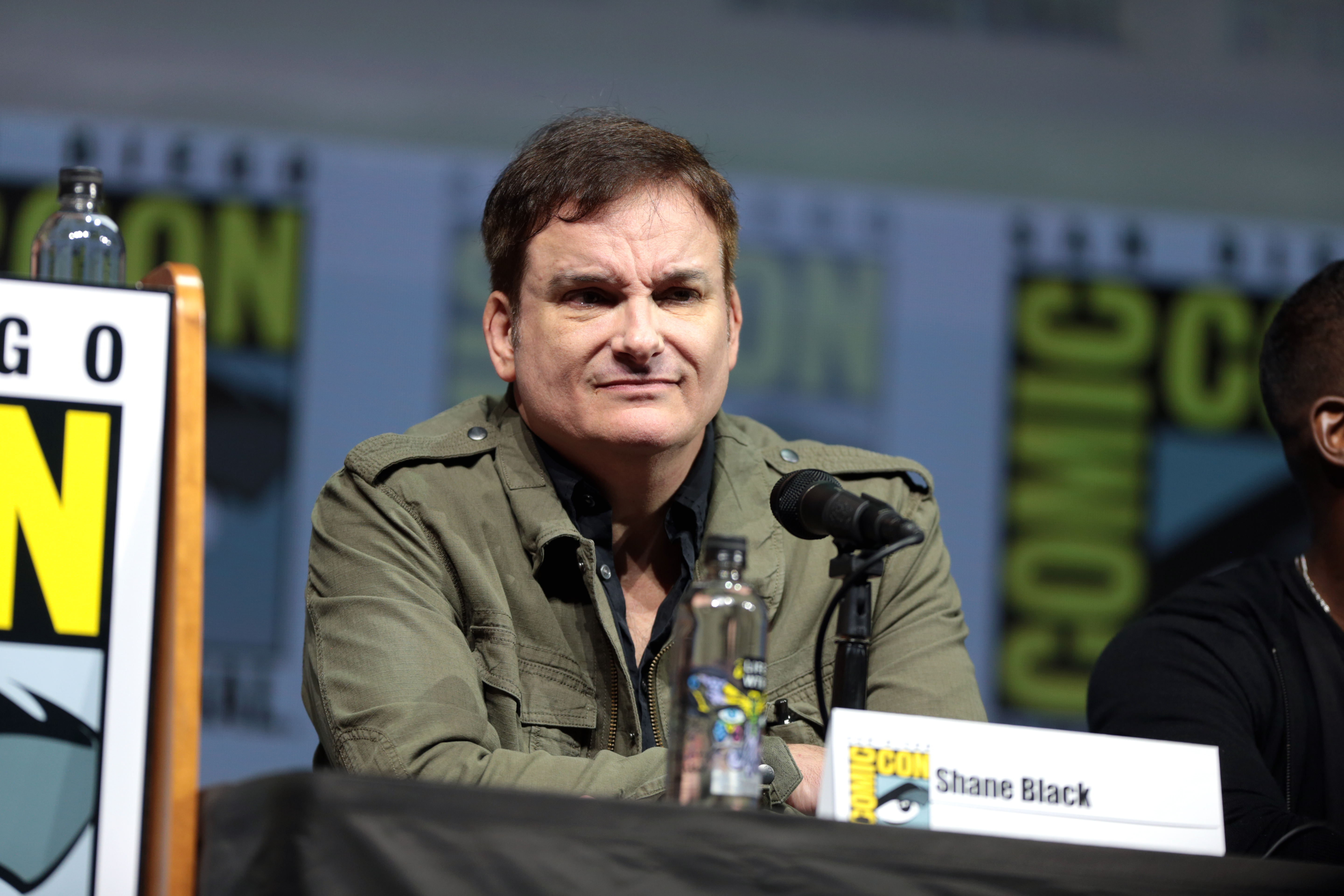 Shane Black speaking at the 2018 San Diego Comic Con International, for "The Predator", at the San Diego Convention Center in San Diego, California.